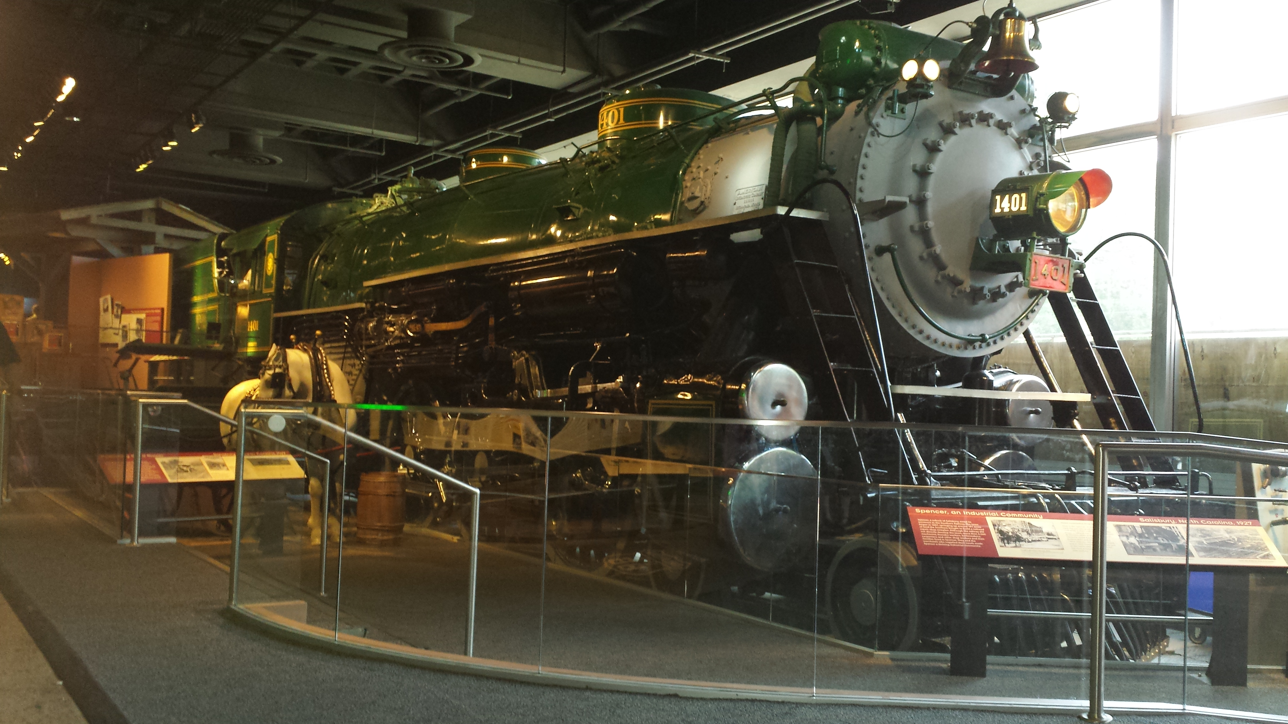 Southern Railway no. 1401 at the Smithsonian.